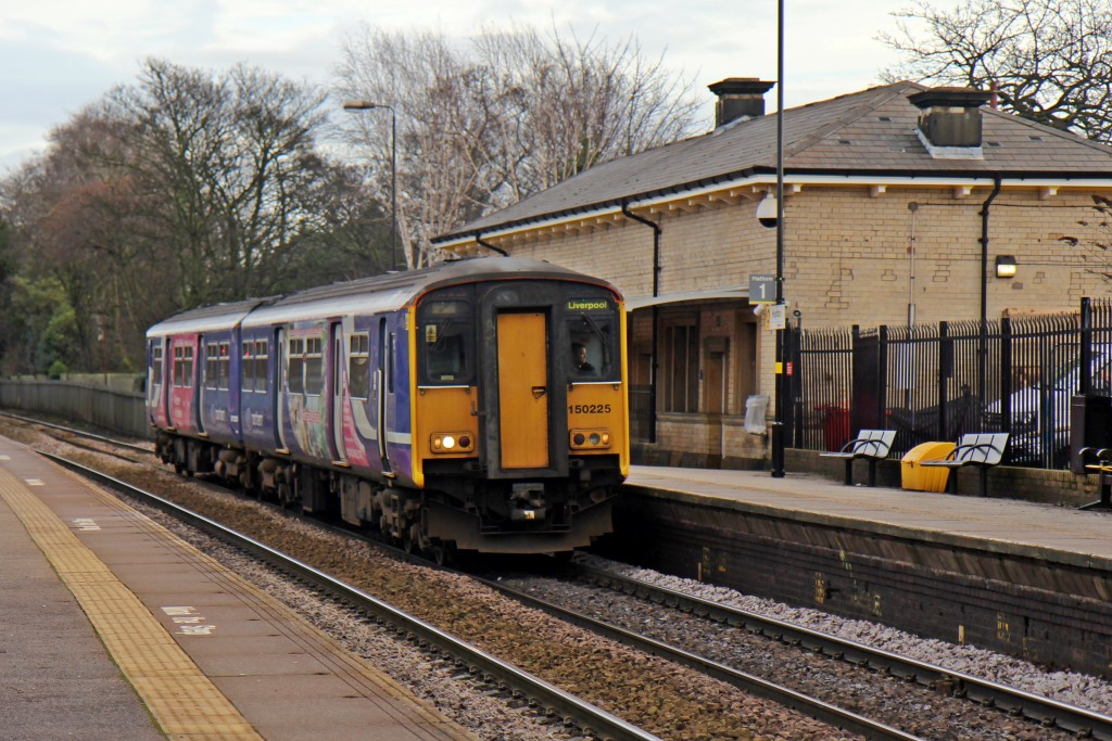 Northern Rail Class 150, 150225, Huyton railway station